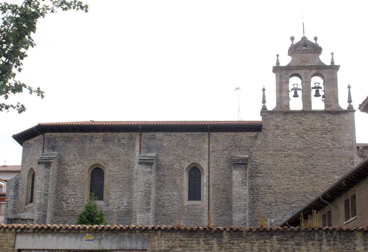 Santa Cruz Convent, Vitoria-Gasteiz